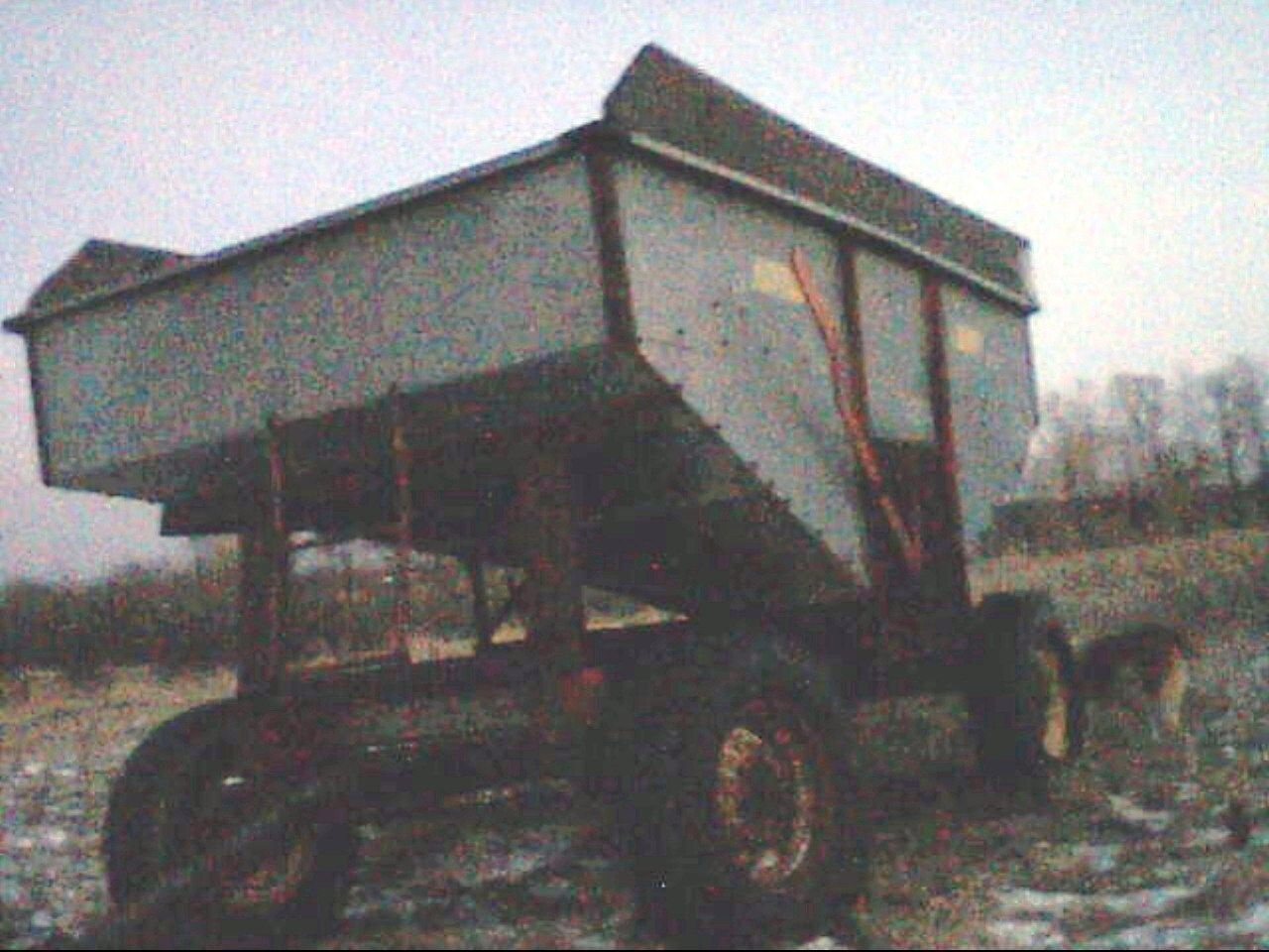 A slant wagon